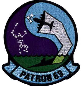 VP-69 insignia.